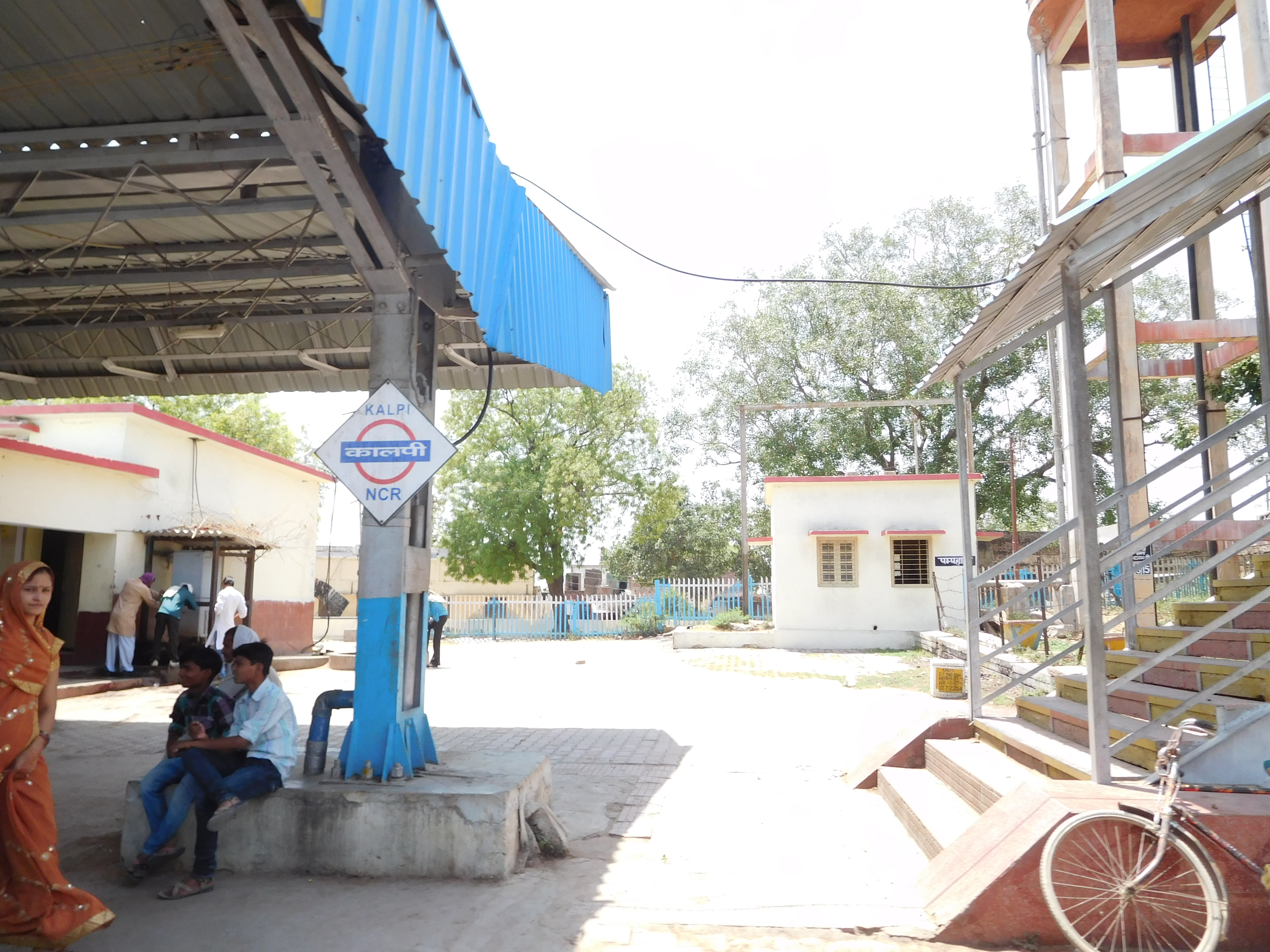 Kalpi Railway Station (Plateform),North Central Railway,Jalaun ,UP ,India.